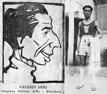 Valerio Arri, athlet, medalwinner at the 1920 Olympic Games compilation of a caricature drawing and a photography, adapted reproduction, no restrictions on use Copyright: free of charges